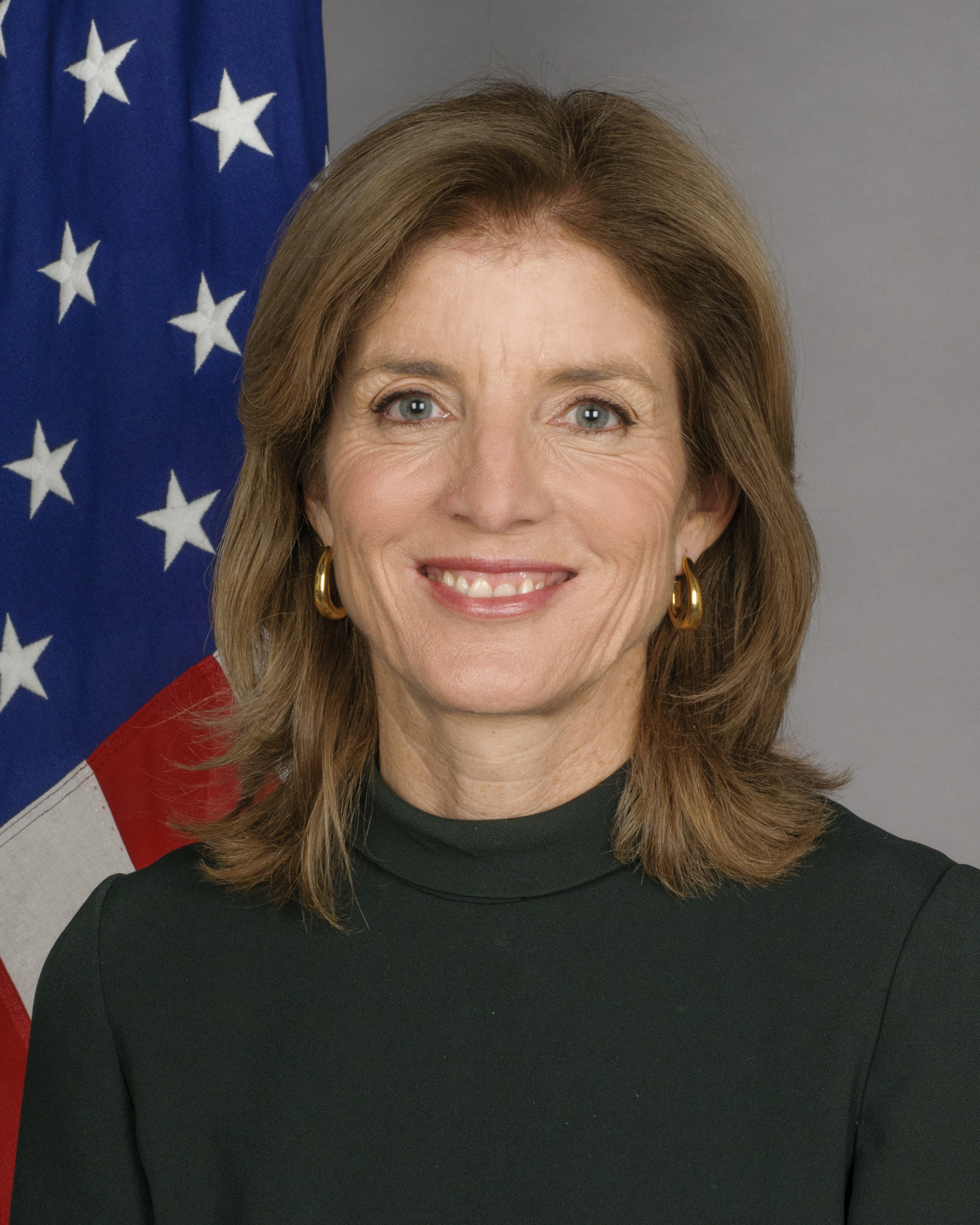 US State Department portrait of Caroline Kennedy, United States Ambassador to Japan as of 2013